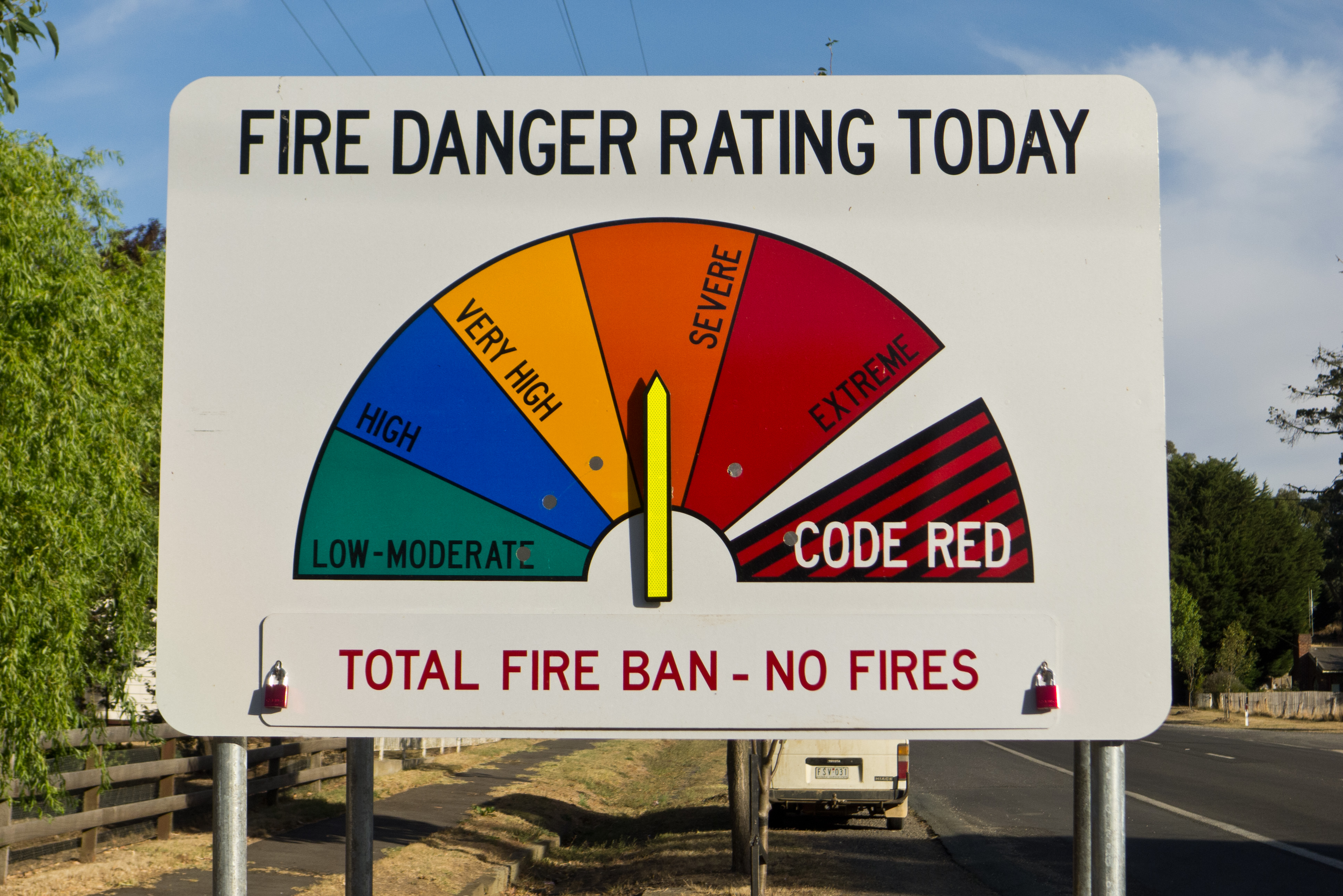 Fire danger rating sign in the main street of Taradale, a small town in Central Victoria, Australia. The fire danger on this day was severe and a total fire ban was declared for the North Central district.